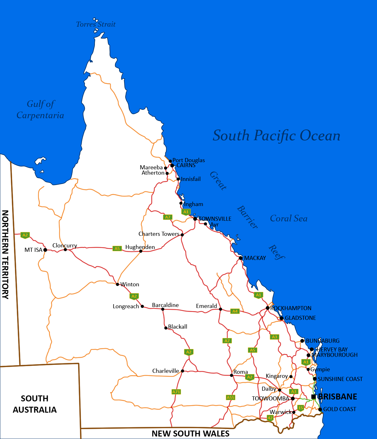 Main Connecting Roads in Queensland, Australia. (Key: Green Routes - Motorways, Red Routes - Highways, Orange Routes - Other Major Roads)